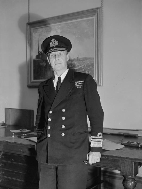 The Third Sea Lord. January 1944, Admiralty. Vice Admiral Sir W Frederic Wake-walker, Kcb, Cbe, Third Sea Lord and Controller. Vice Admiral Sir W Frederic Wake-Walker.